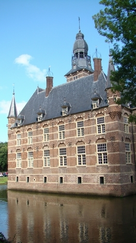 Castle Wijchen 56″ N, 5° 43′ 39.91″ E